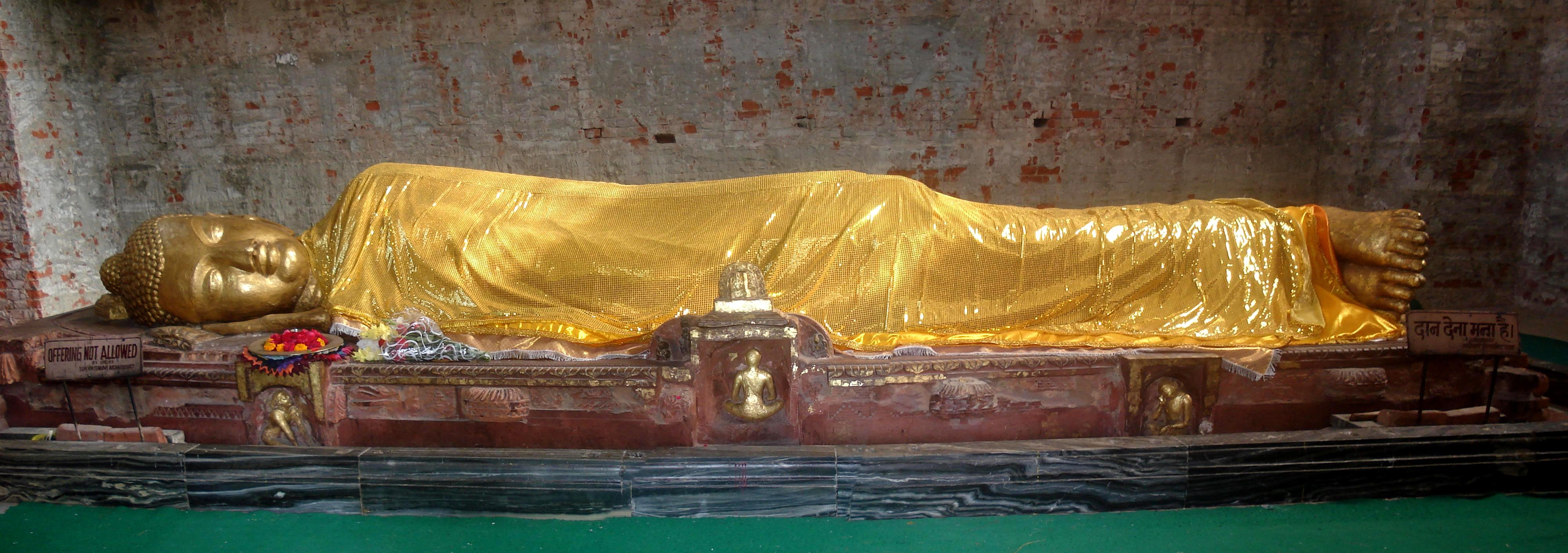 Image of buda Parinirvana; just off at the Mahaparinirvana Temple in Kusinara (also Kushinagar or Kusinagar), Uttar Pradesh, India.